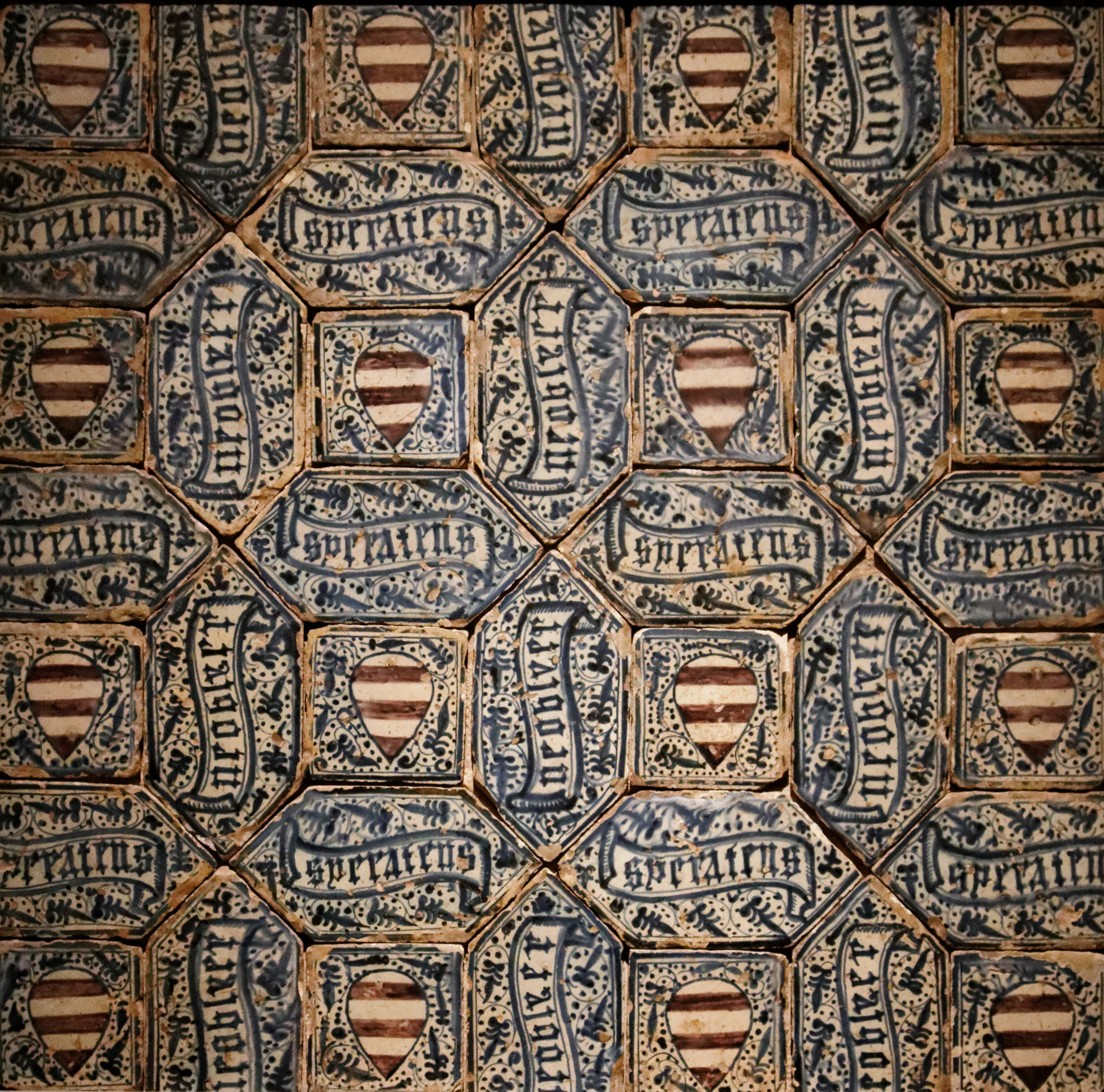 Section of a tile floor (hex tiles, called "alfardones", mixed with square tile) with coat of arms. Unknown author Spanish, possibly Manises, 1425 - 1450 Tin-glazed earthenware 4 x 6 ft. (may be from a different section of tile floor?) Getty Museum 84.DE.747